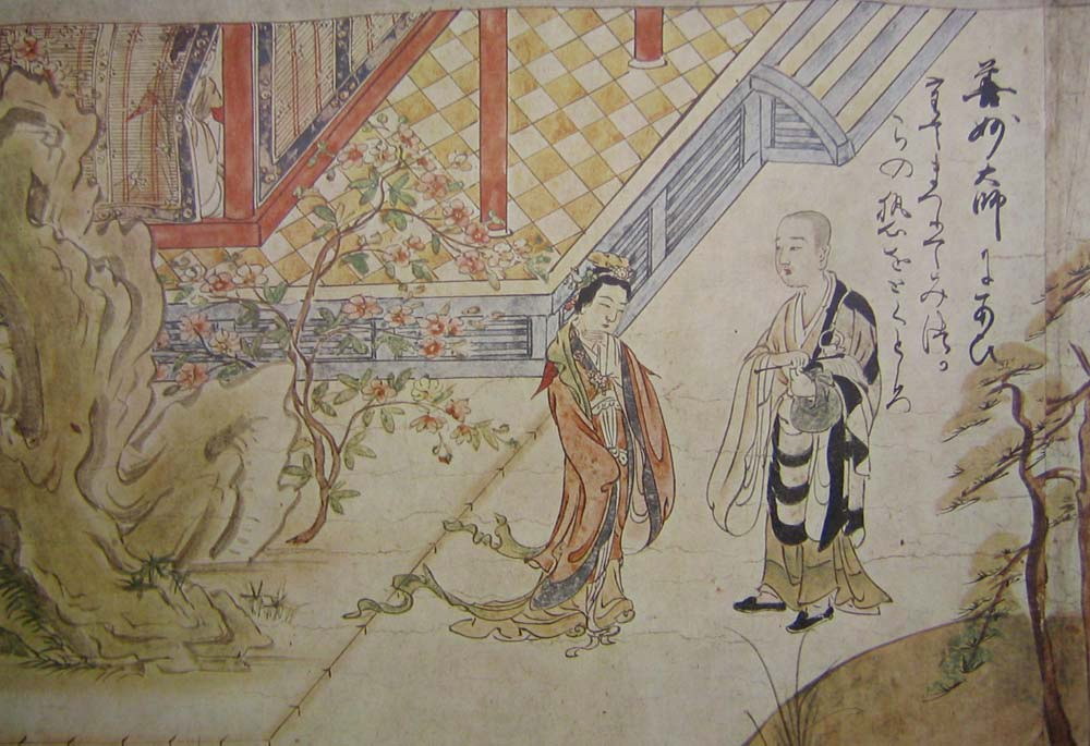 Gisho 2 : Zenmyo declares her love to Gisho.